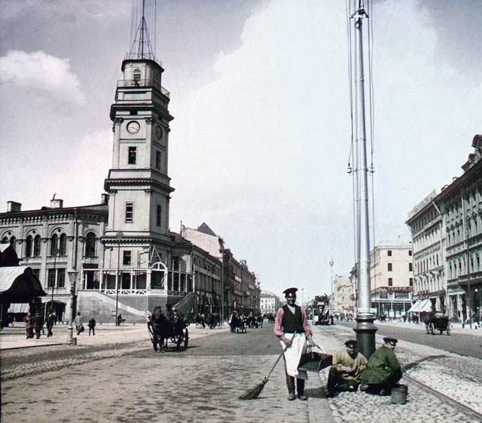 Nevsky Prospekt in St.-Petersburg